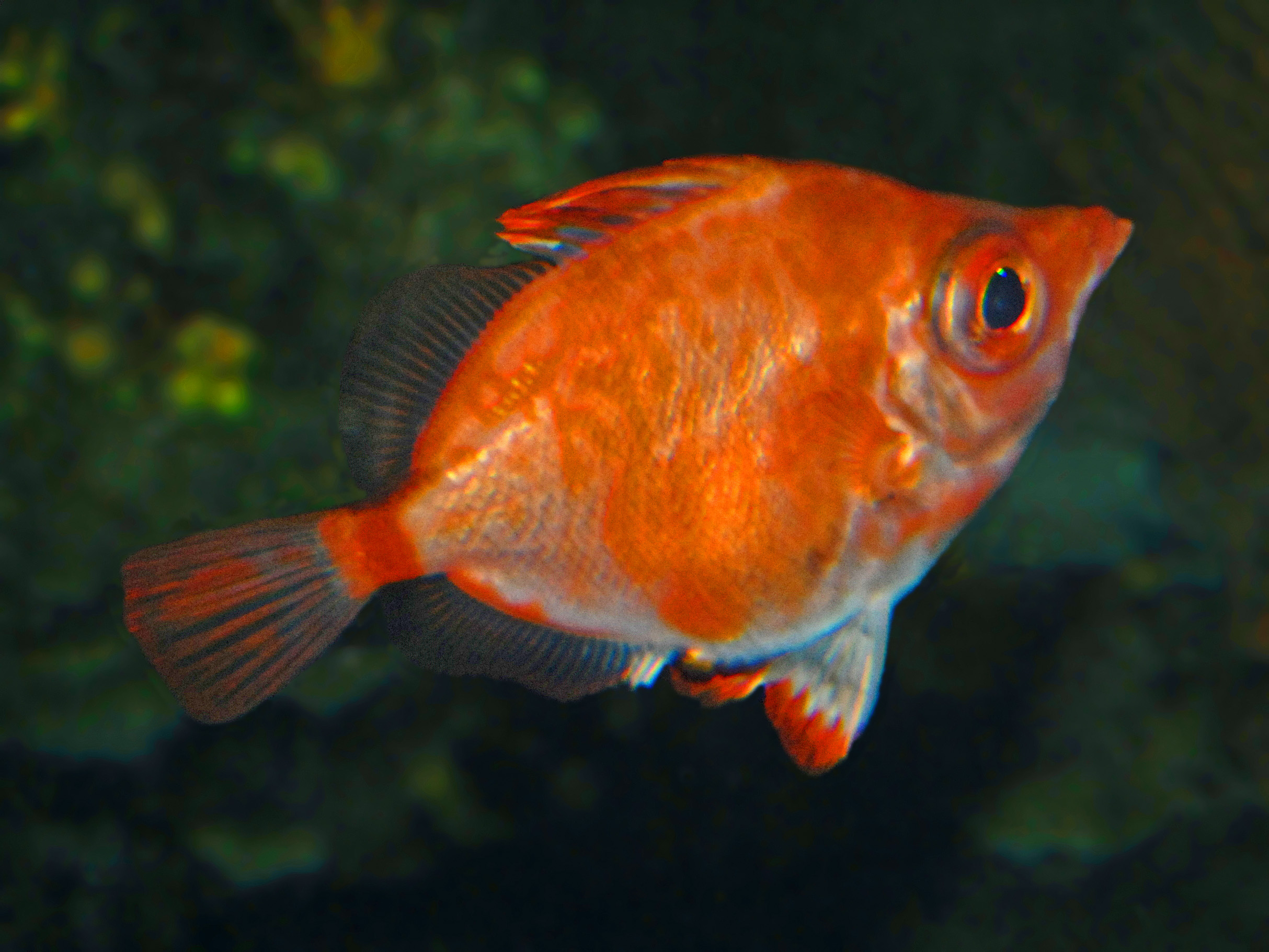 Capros aper at the Civic Aquarium of Milan